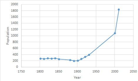 Total population of Ramsden Crays as reported by the British census of population from 1801 to 2011